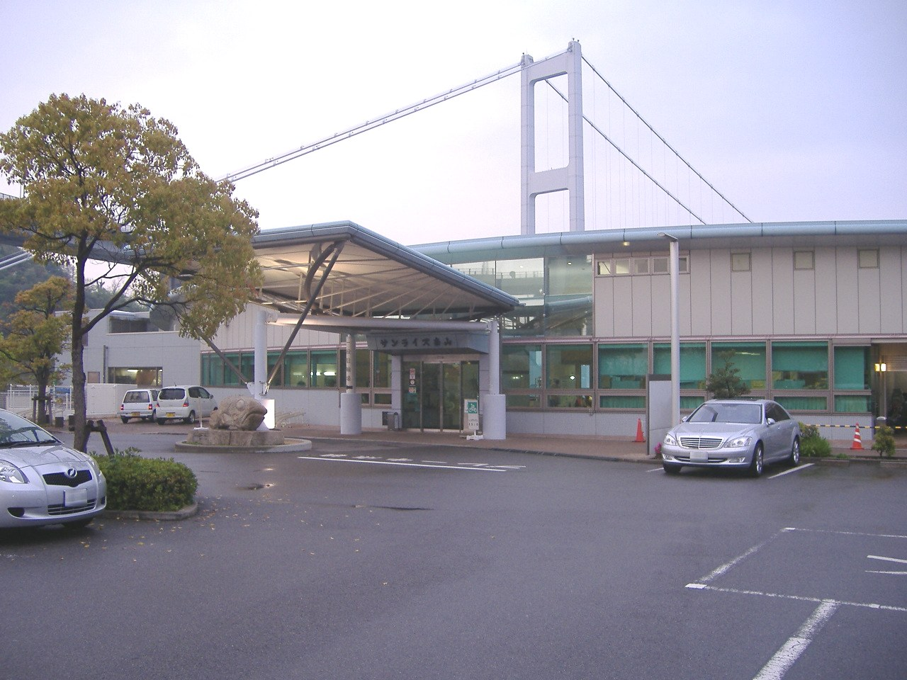 Cycling station "Sumrise-Itoyama" (Imabari, Japan)